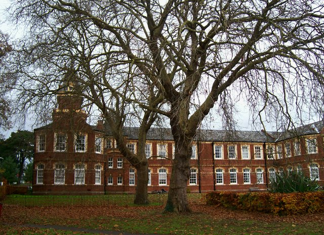 Digby Exeter Purpose built Victorian building. Ex-psychiatric hospital. Now encompassed by residential dwellings.